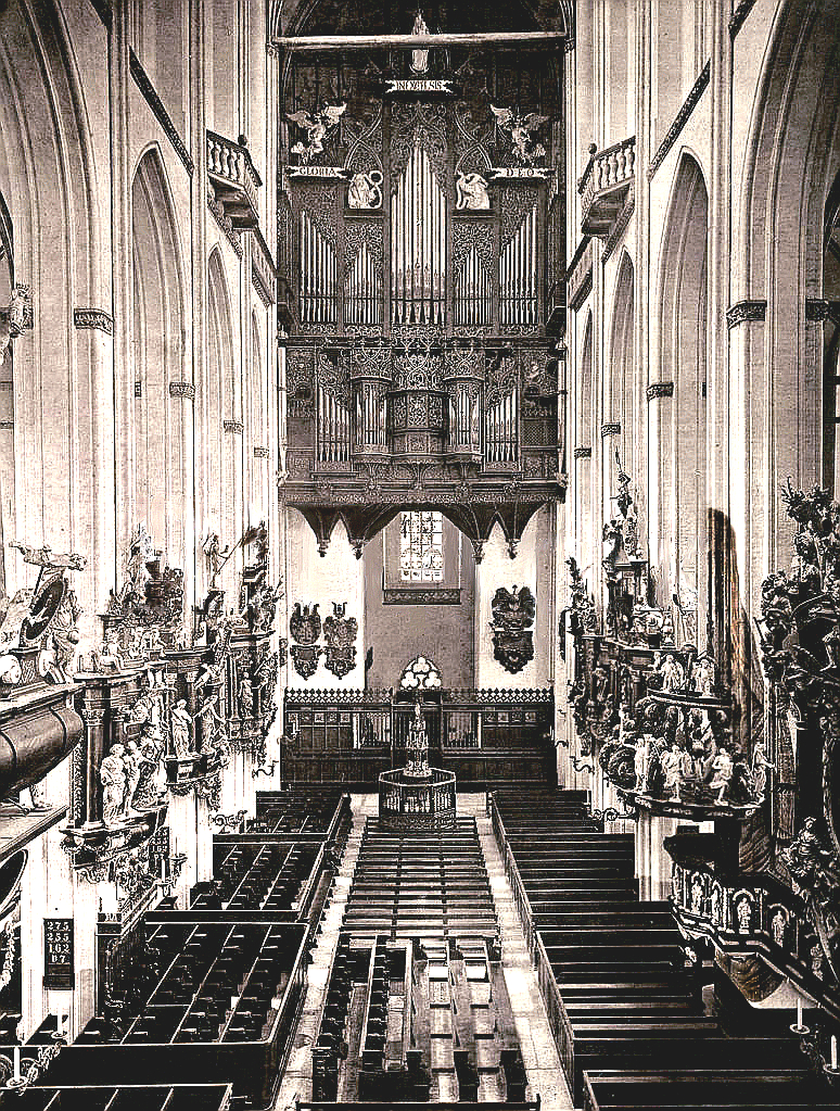 St. Mary Church, Lübeck, before 1942 bombing.